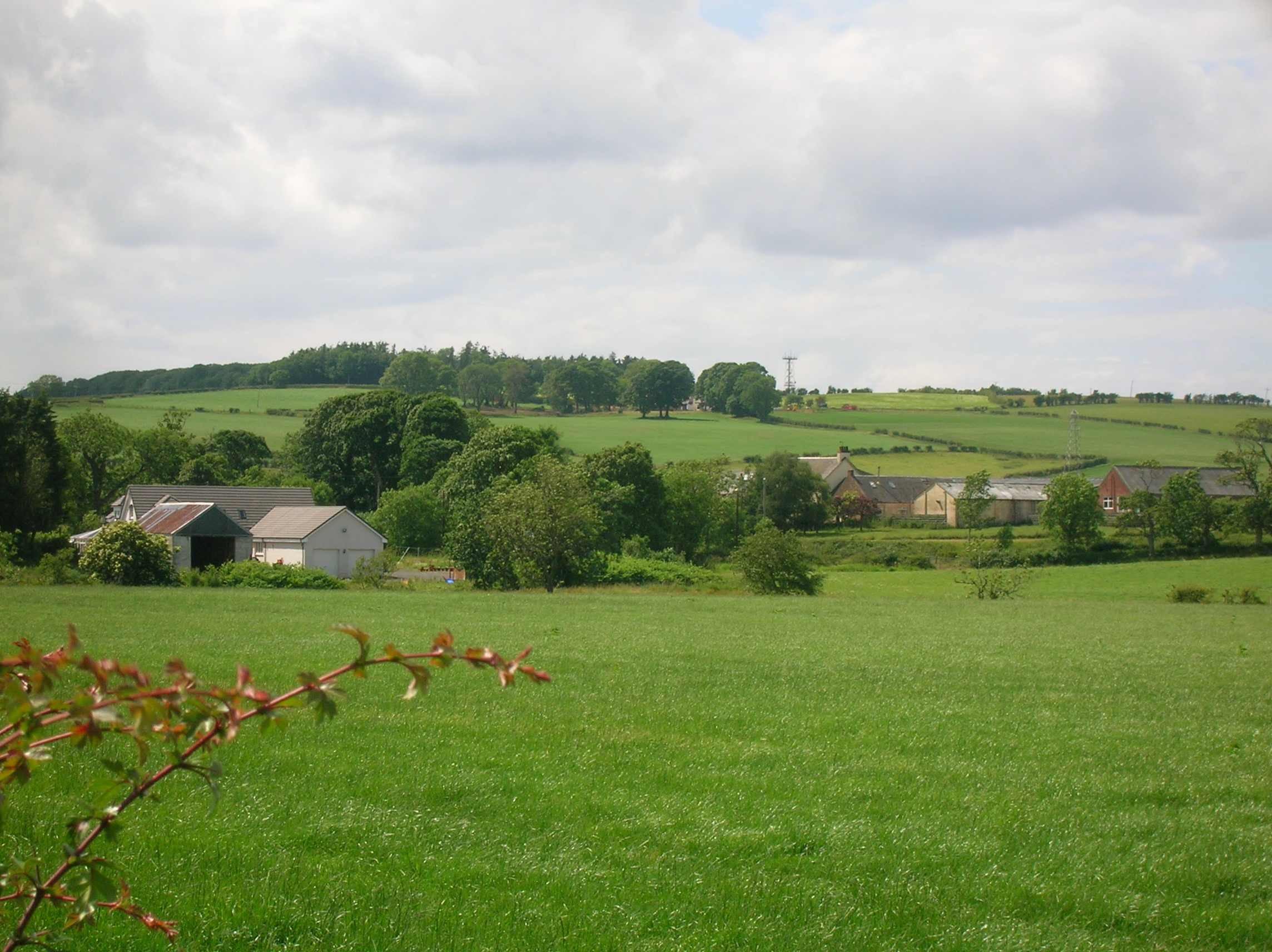 Fail Mill and Fail Mains from near Redrae Farm, South Ayrshire, Scotland. Fail Monastery and Castle were nearby.